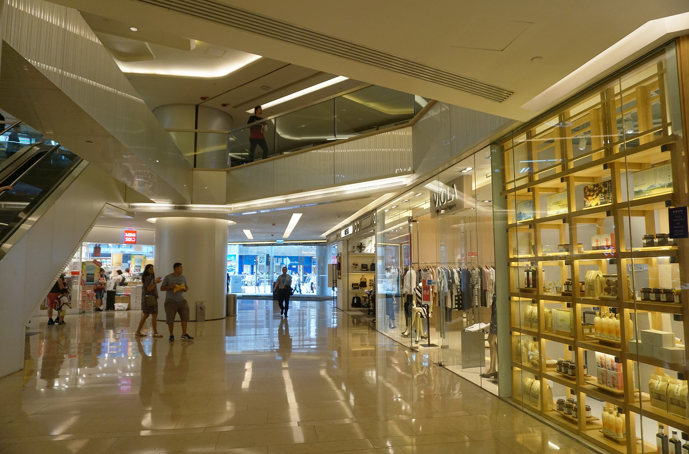 Infinitus Plaza in Sheung Wan, Hong Kong.